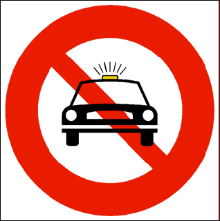 Taiwanese Prohibitory Sign P7: No Taxis Without Passengers